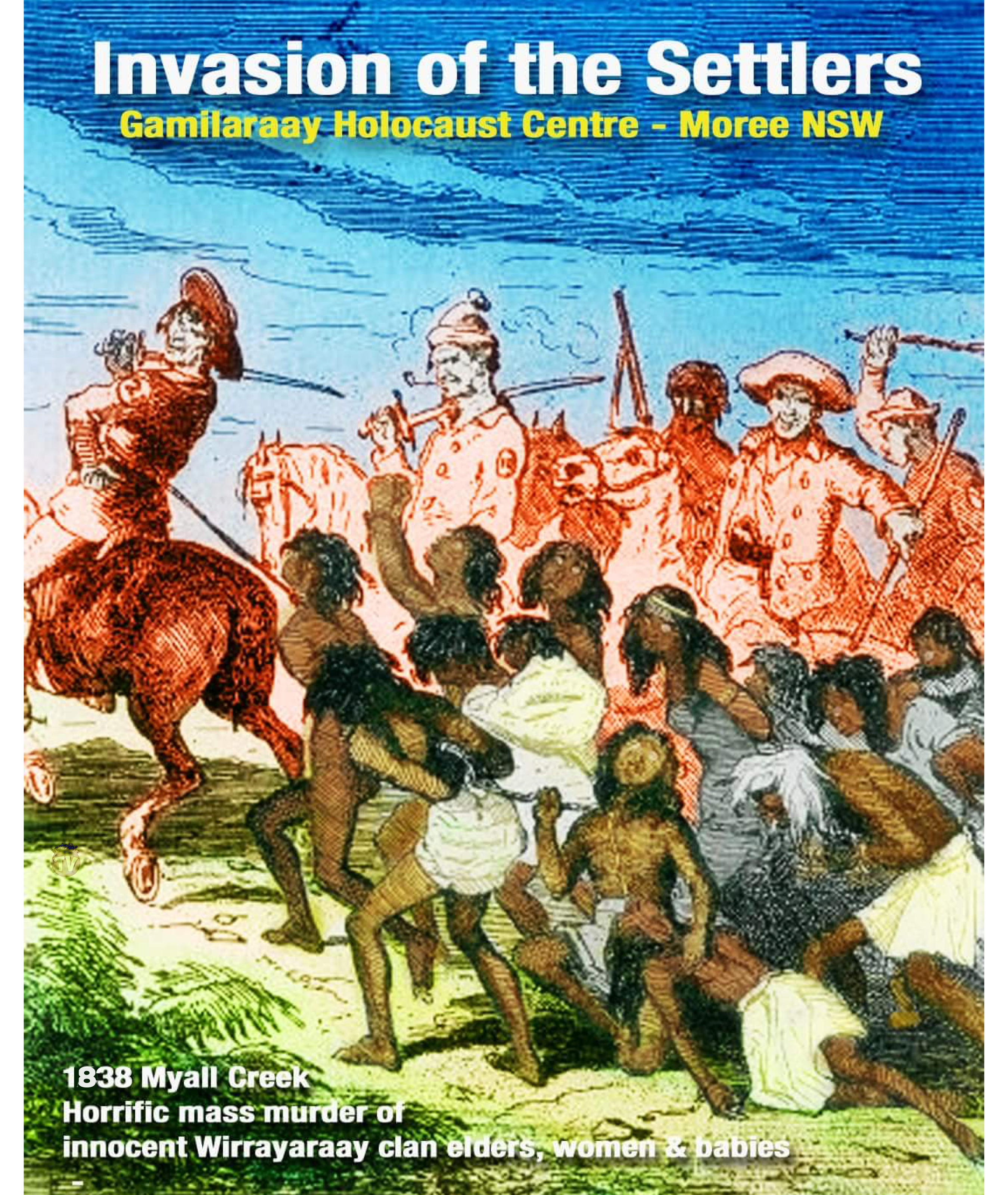 ReColouration of Myall Creek Massacre scene from 177 year old lithograph - "Australian Aborigines Slaughtered by Convicts, by Phiz, The Book of Remarkable Trials, 1840; Chronicles of Crime V. II, 1841." for a Gamilaraay Surviving Descendants community education project.